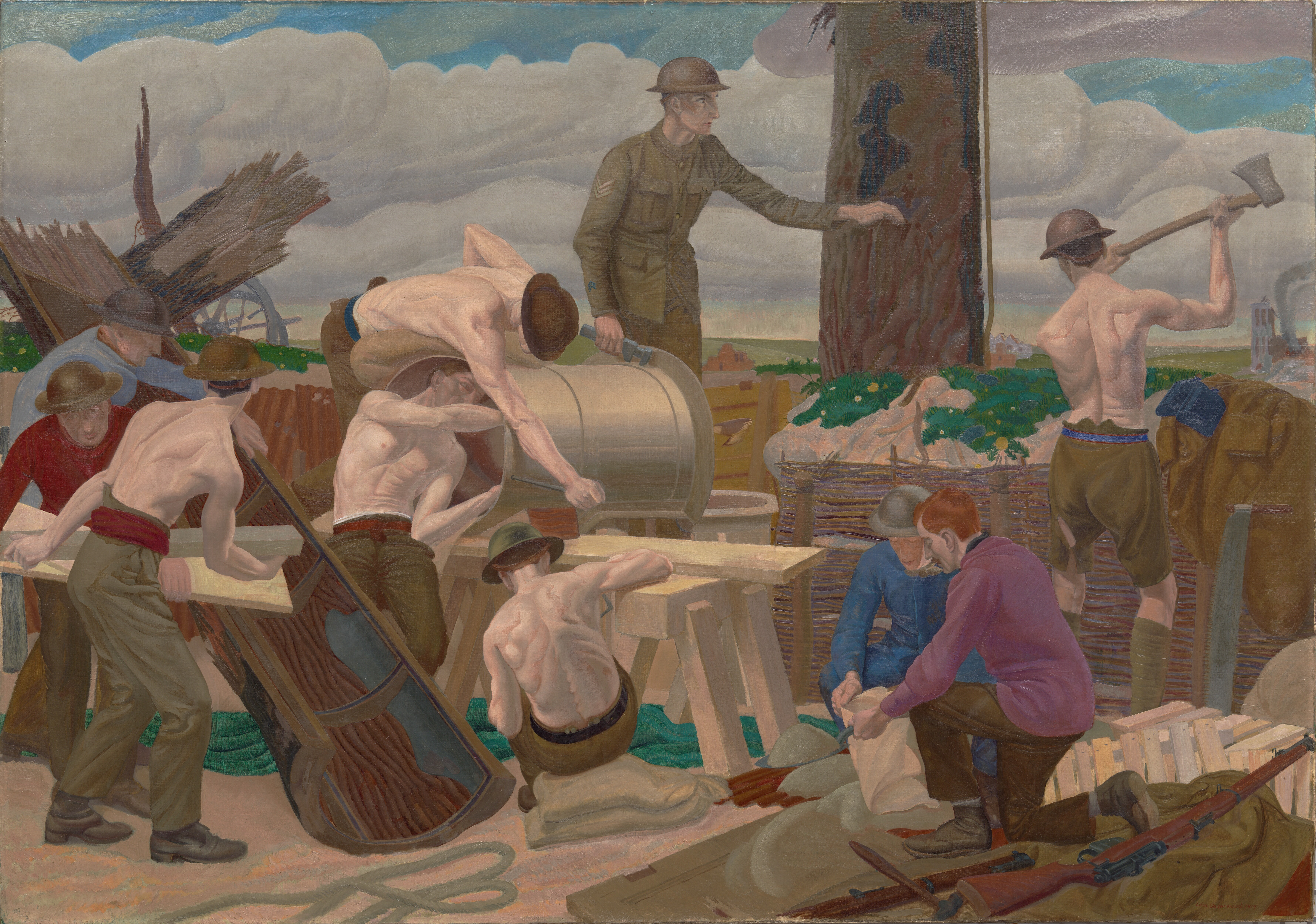 A 'camouflage tree' was an observation post made from a hollow metal cylinder, camouflaged as a dead tree. image: A group of men erecting a 'camouflage tree'. The soldier standing at the top centre of the composition appears to be directing the others about their work. many of the soldiers are stripped naked to the waist, and the rest wear different coloured tunics. The soldiers on the left are fitting the hollow sections together; while those on the right appear to be preparing the ground for the 'tree'.